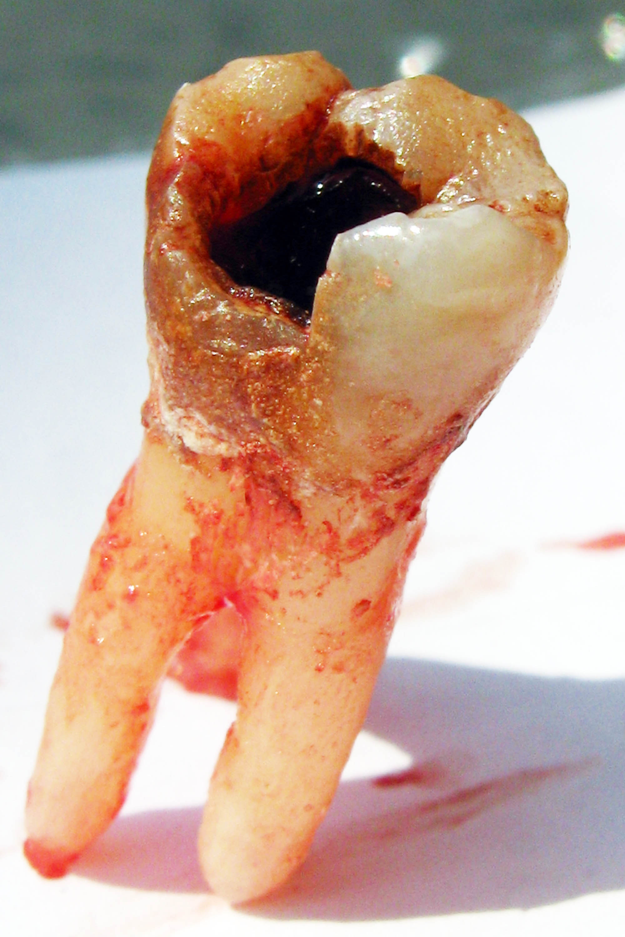 An extracted tooth with a cavity